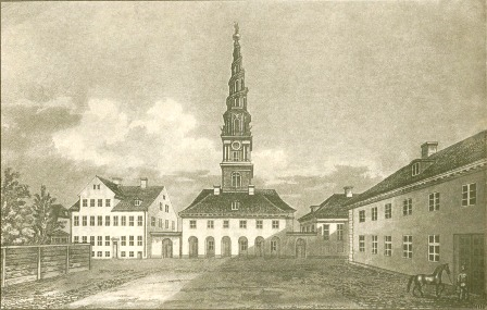 Denmark's first vetenary school, located at Sankt Annæ Gade in Christianshavn in Copenhagen